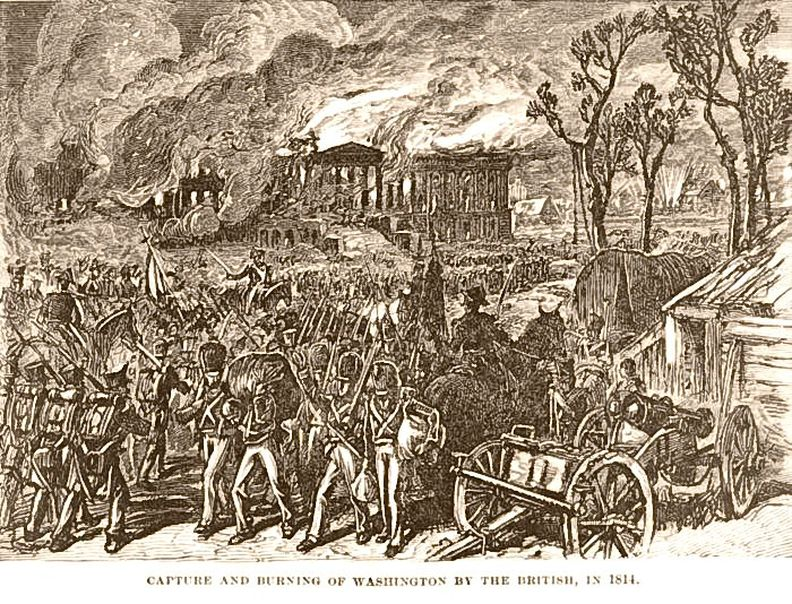 Drawing, "Capture and burning of Washington by the British, in 1814." 1876 publication.